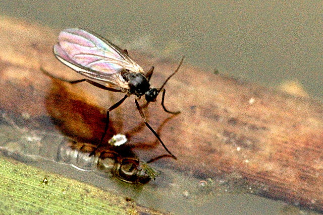 Picture taken in Commanster, Belgian High Ardennes . Species: Bradysia sp.